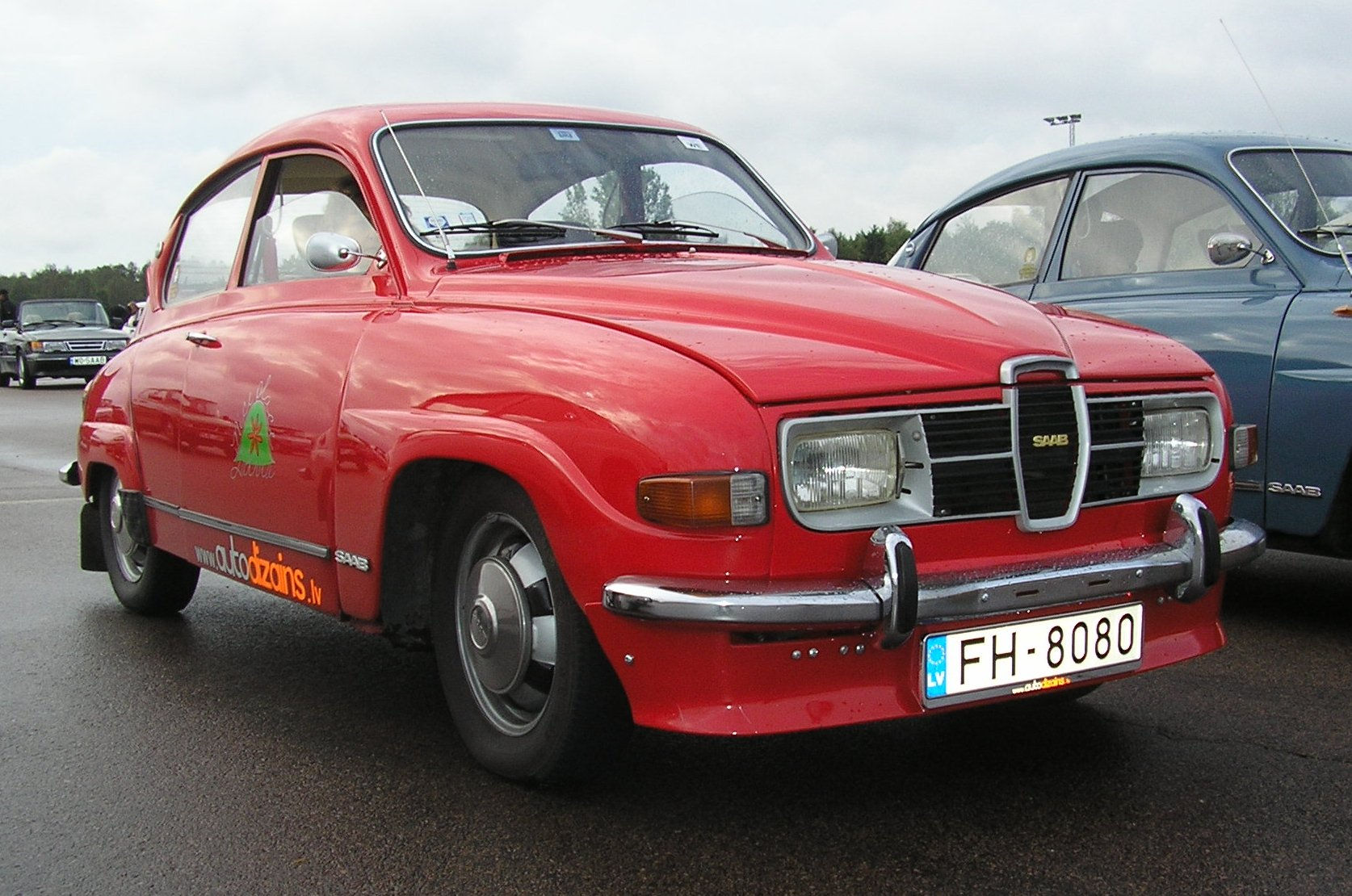 A 1975 SAAB 96 at the International SAAB Club Meeting 2006. Notice the front spoiler.